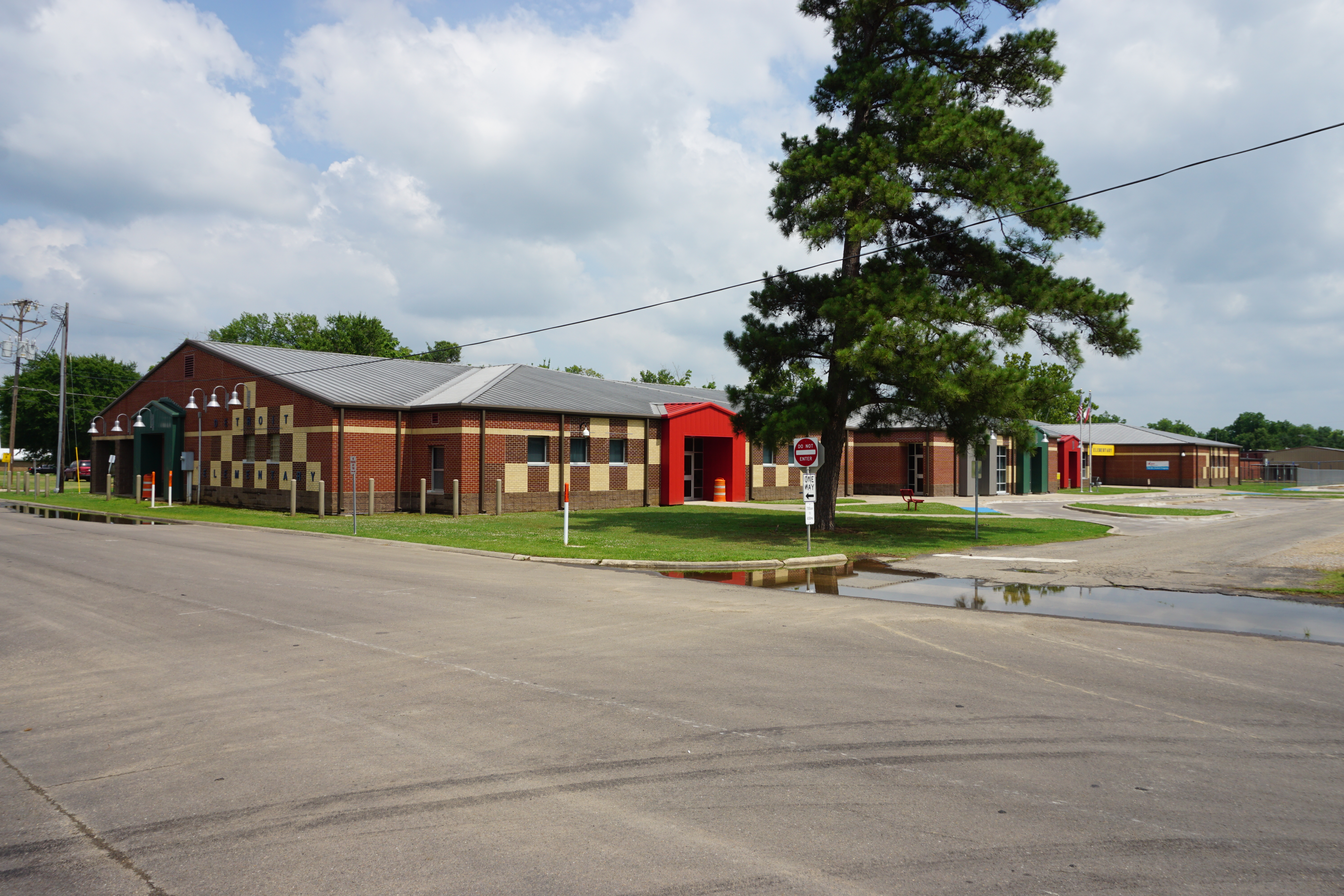 Detroit Elementary School in Detroit, Texas (United States).